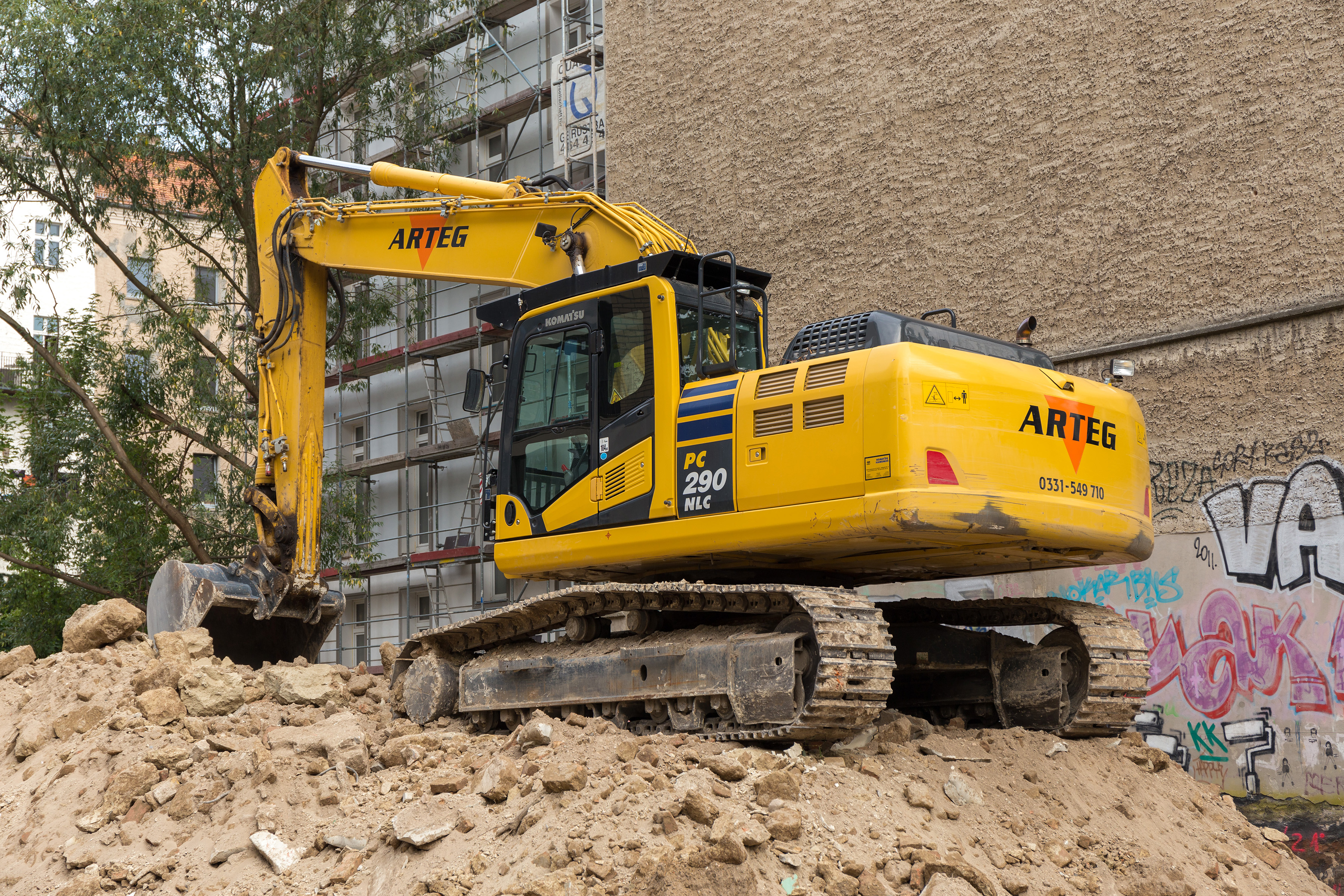 A Komatsu PC290 excavator in Berlin.